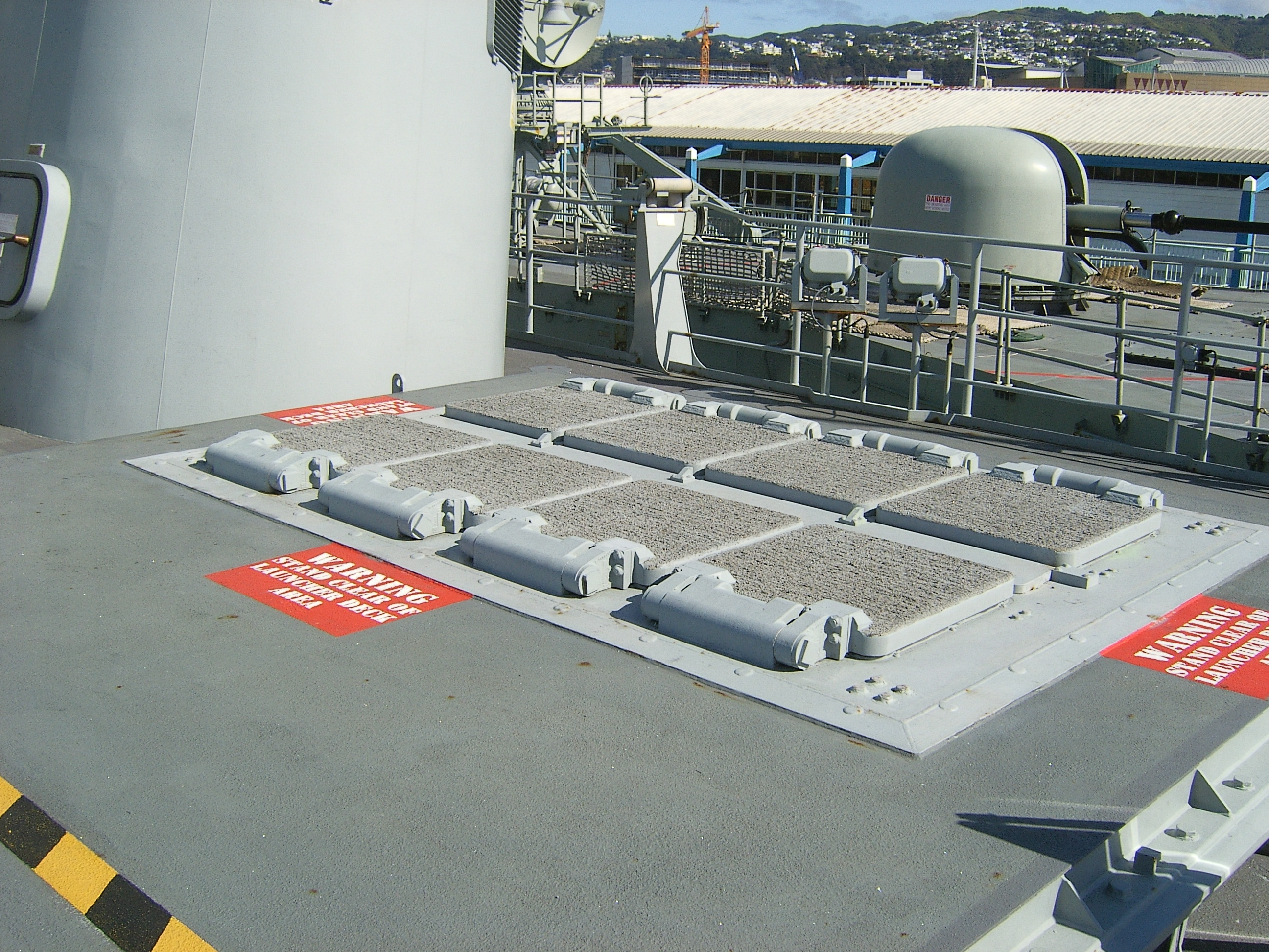 Ross Browne 3 September 2005